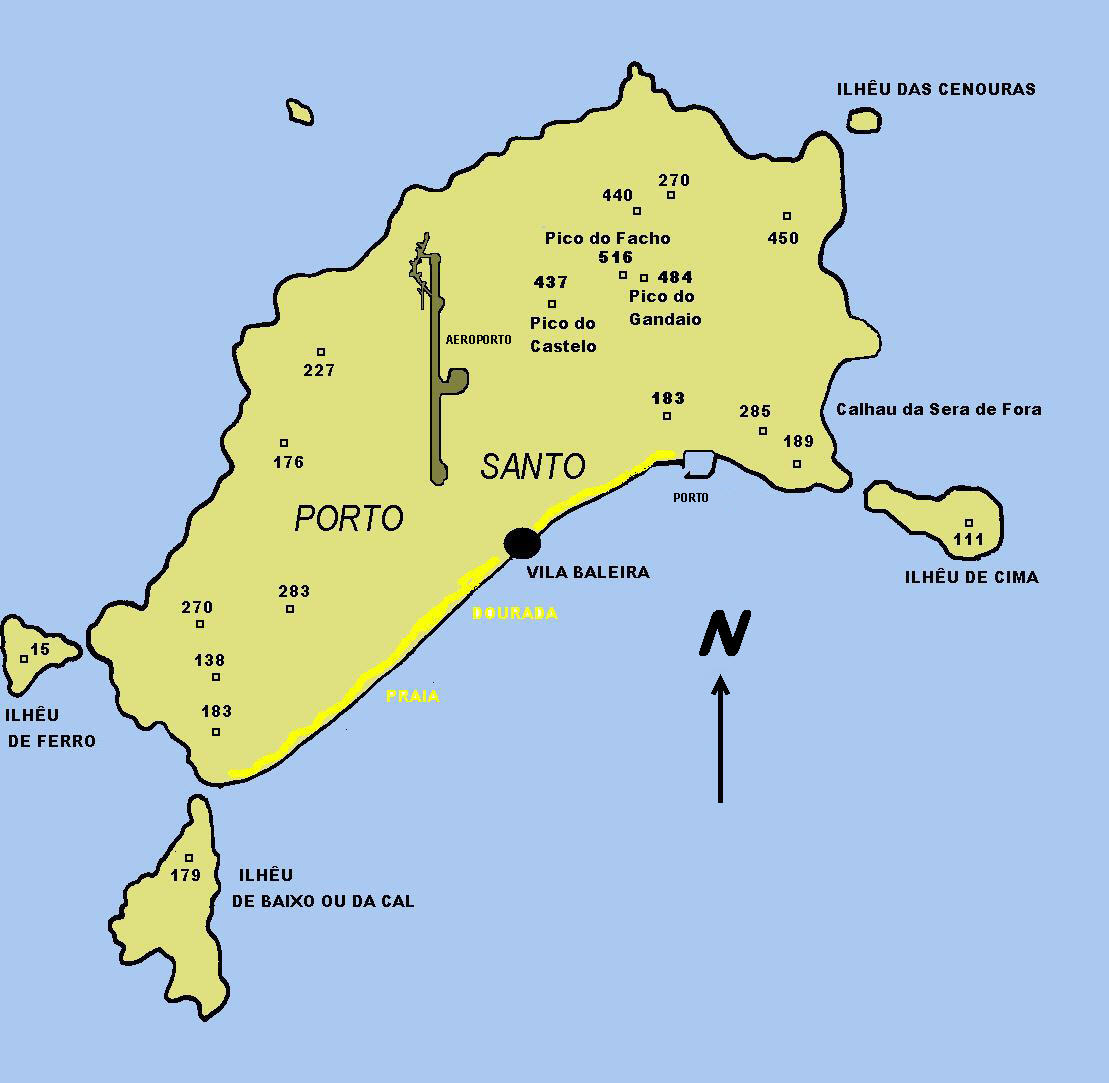 Map of Porto Santo island.